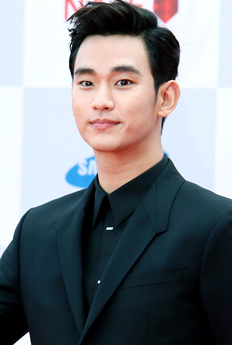 Kim Soo-hyun at the Seoul Drama Awards, 4 September 2014